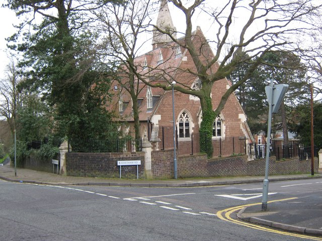 Former parish church of St James, St James' Road, Edgbaston, Birmingham, seen from the north from the junction with Elvetham Road